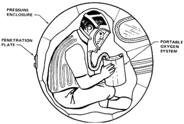 Artist's impression of the design of the Personal Rescue Enclosure